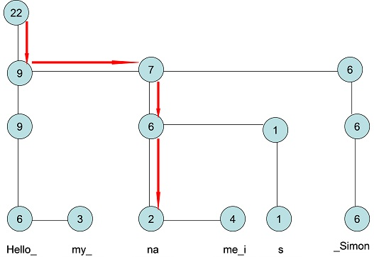 an exmple of a rope search operation